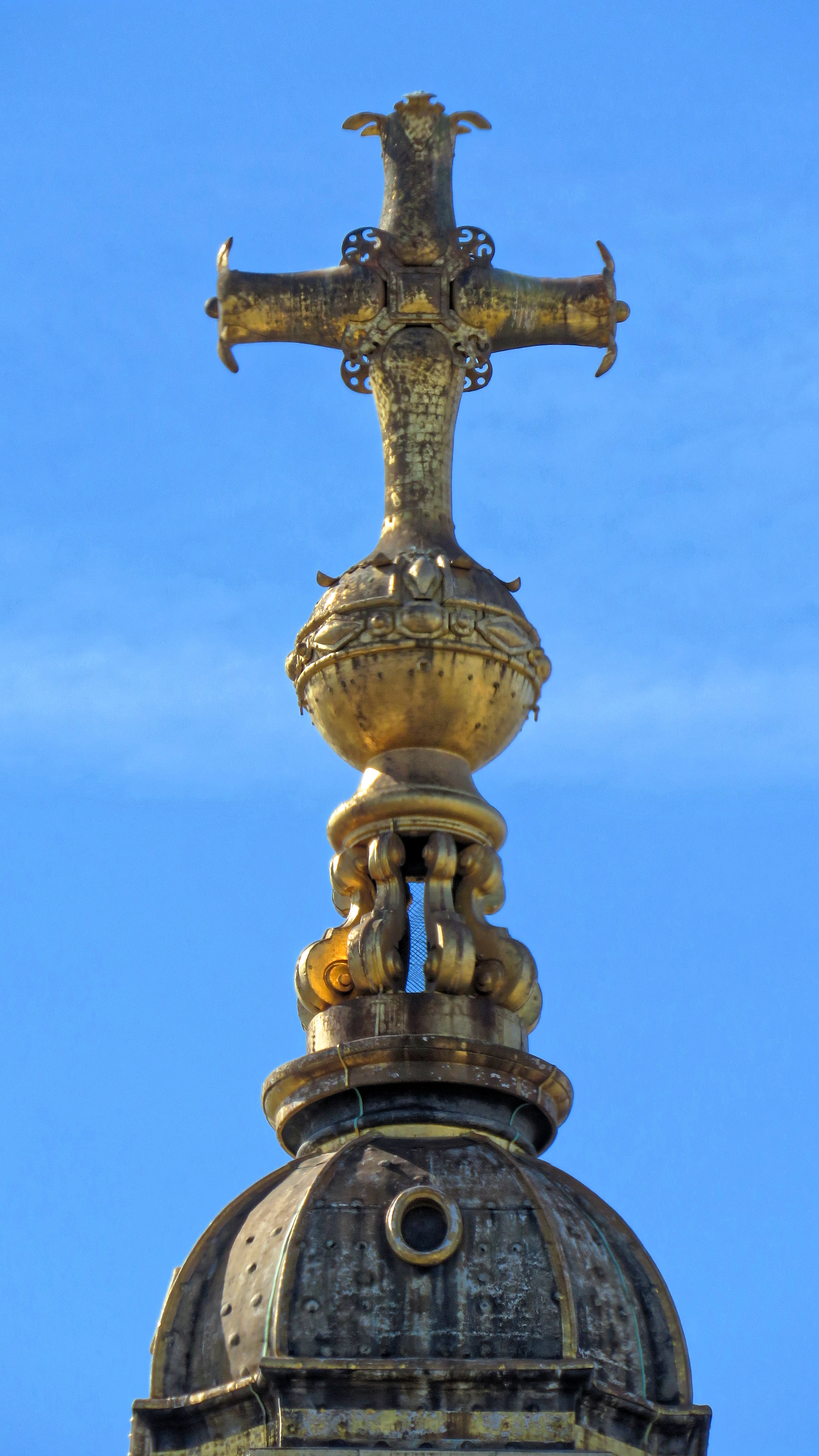 The lantern ball and cross of St Paul's west from the roof of One New Change, in the City of London, England.Camera: Canon PowerShot SX60 HS.Software: file lens-corrected and optimized with DxO PhotoLab Elite and Viewpoint 3, and further optimized with Adobe Photoshop CS2.